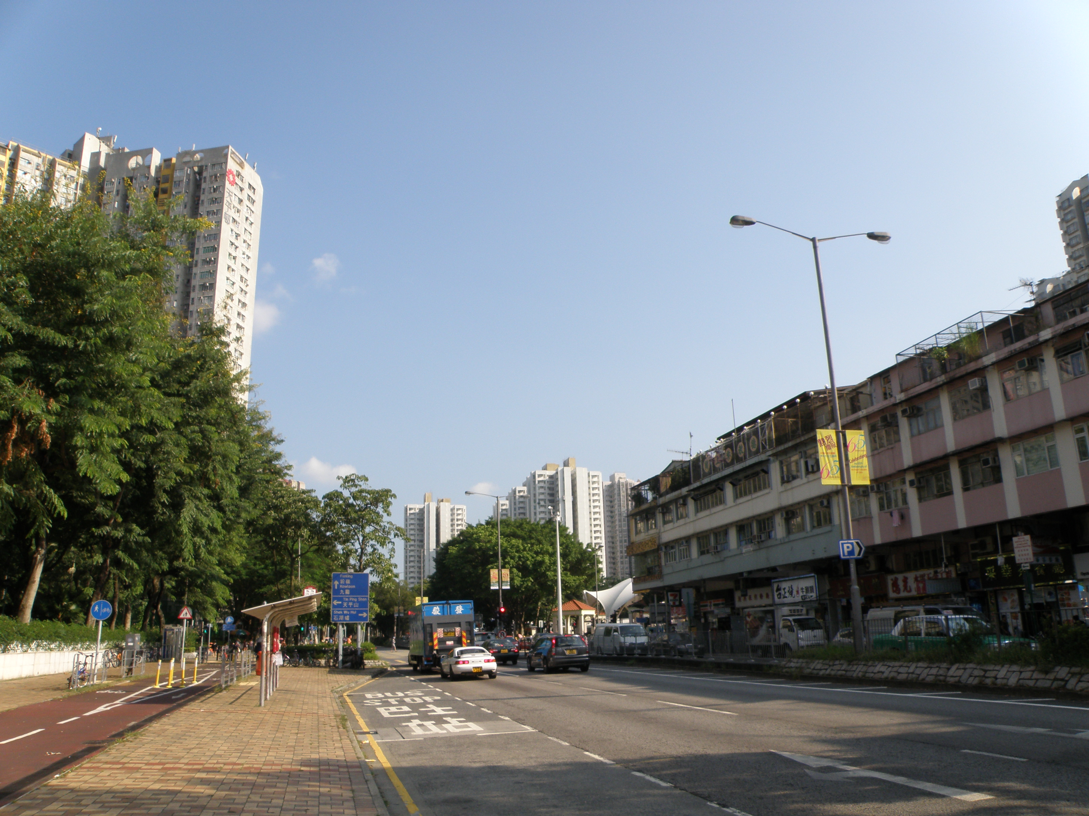 Jockey Club Road near Tin Ping Estate, Sheung Shui, Hong Kong.